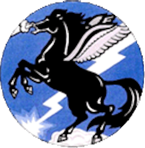 Emblem of the 504th Fighter Squadron (USAAF)